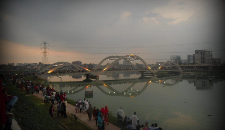 A beautiful view of the second bridge of Hatirjheel with densely populated by people (second day of Eid al-Adha, 2013).